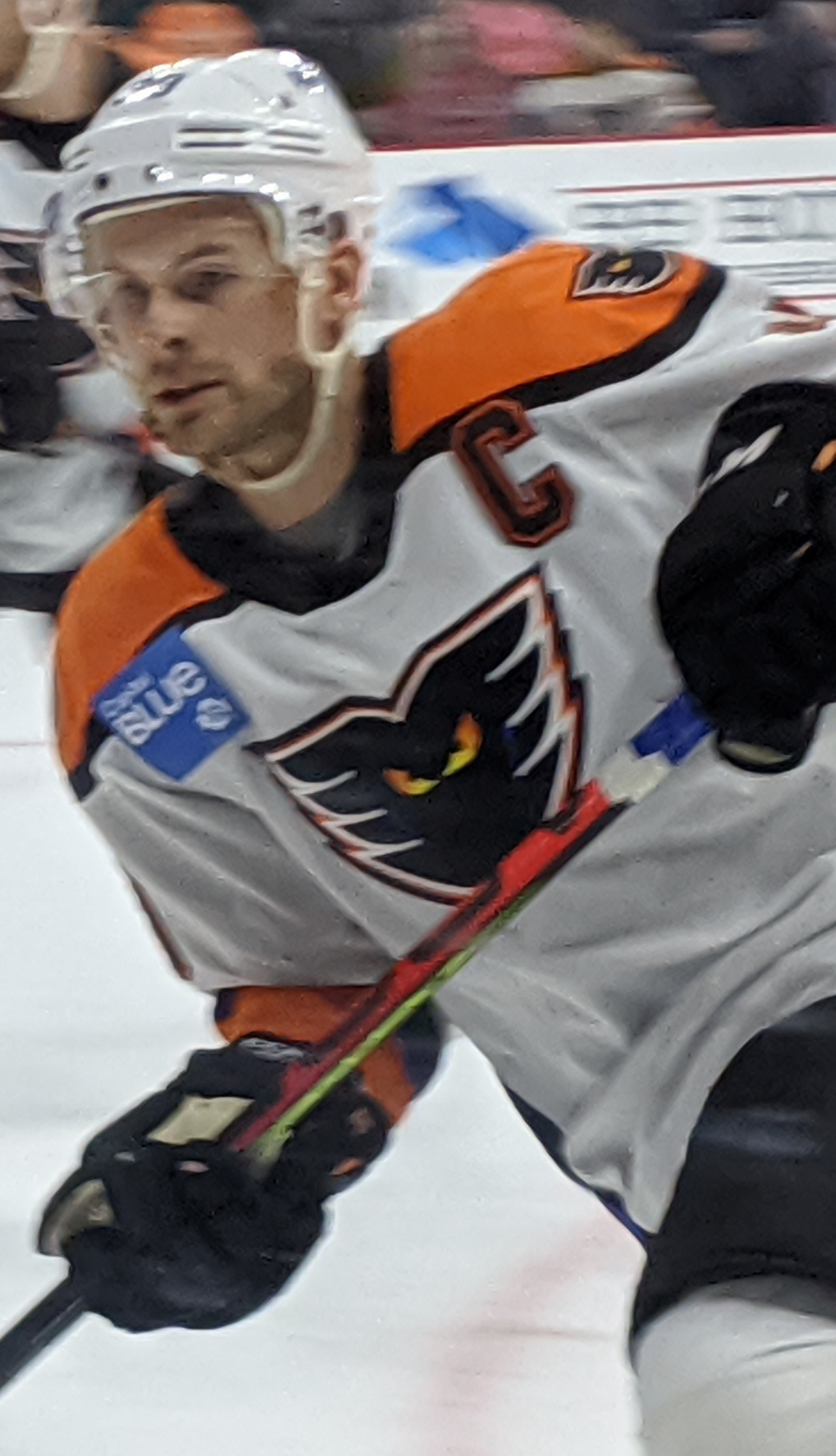 Nate Prosser ice hockey team, at the PPL Center in Allentown, Pennsylvania, on January 11, 2020.